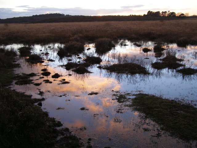 Surface water, Stephill Bottom mire, New Forest This boggy area is to the south of the B3056 road where it crosses Stephill Bottom. Run-off from the heathland to the north drains under the road on its way to the Bishop of Winchester's Purlieu. Even in the summer this mire never quite dries out completely which prevents easy access on foot to the bridge over the railway line (beneath the pines on the horizon to the right of the photo). On the horizon to the left of the photo is the wooded hill of Woodfidley.